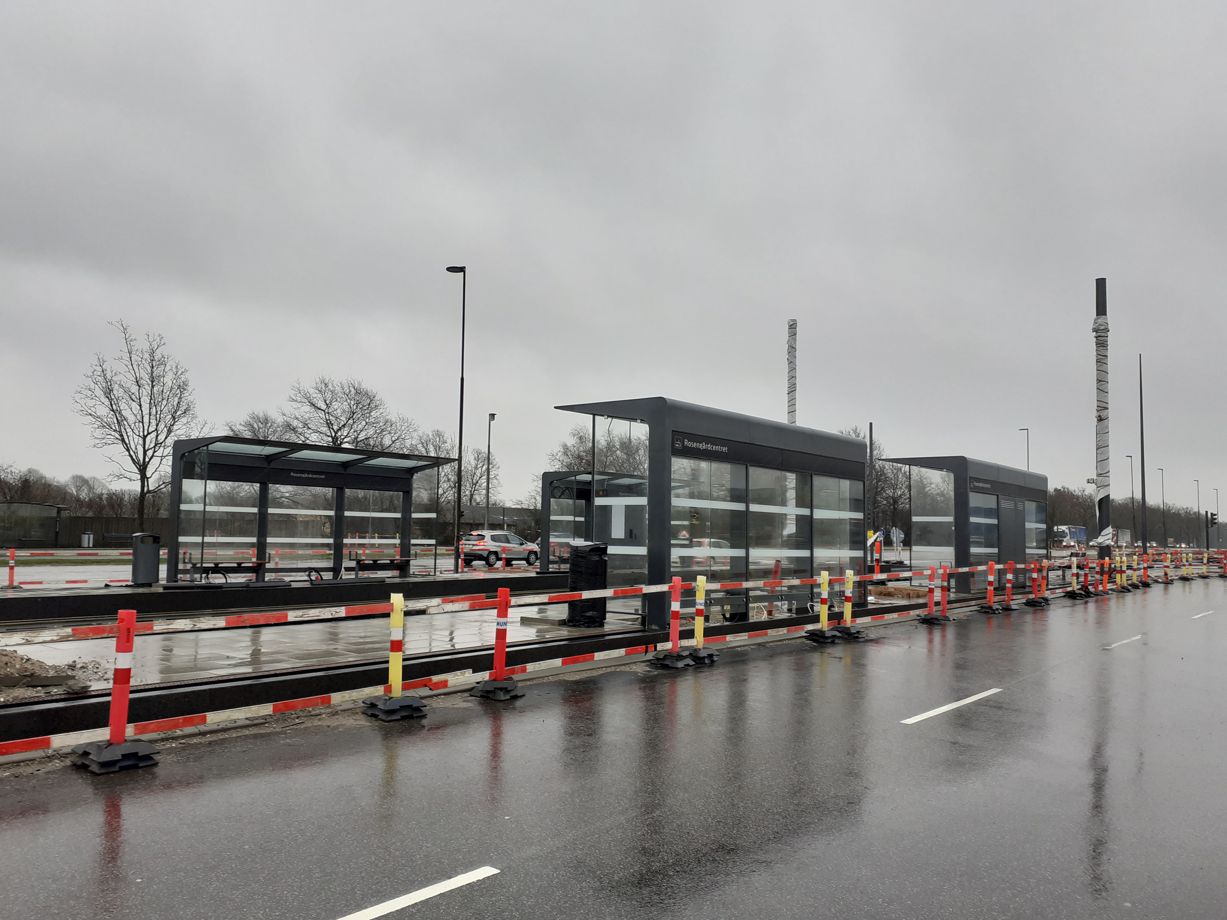 Construction of the future Rosengårdcentret Station on Odense Letbane at Ørbækvej in Odense in Denmark. The shopping mall Rosengårdcentret is situated at the right of the photographer.